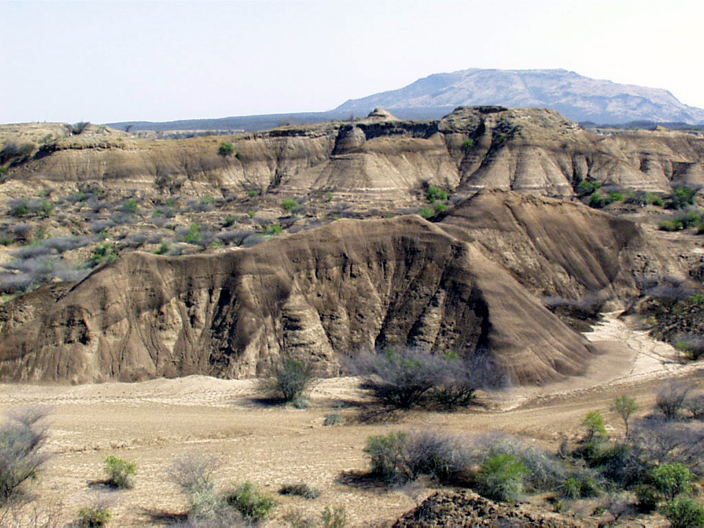 A formation near the town of Kibish, location of the archaeology dig where human bones believed to be 195,000 years old were discovered along the Omo River in southern Ethiopia. The bones are nearly 40,000 years older than skulls from Herto, Ethiopia, the previous record holders.